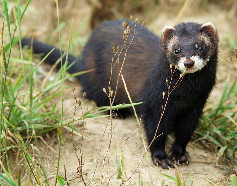 At the British Wildlife Centre, Newchapel, Surrey, the female polecat is seen in her enclosure.